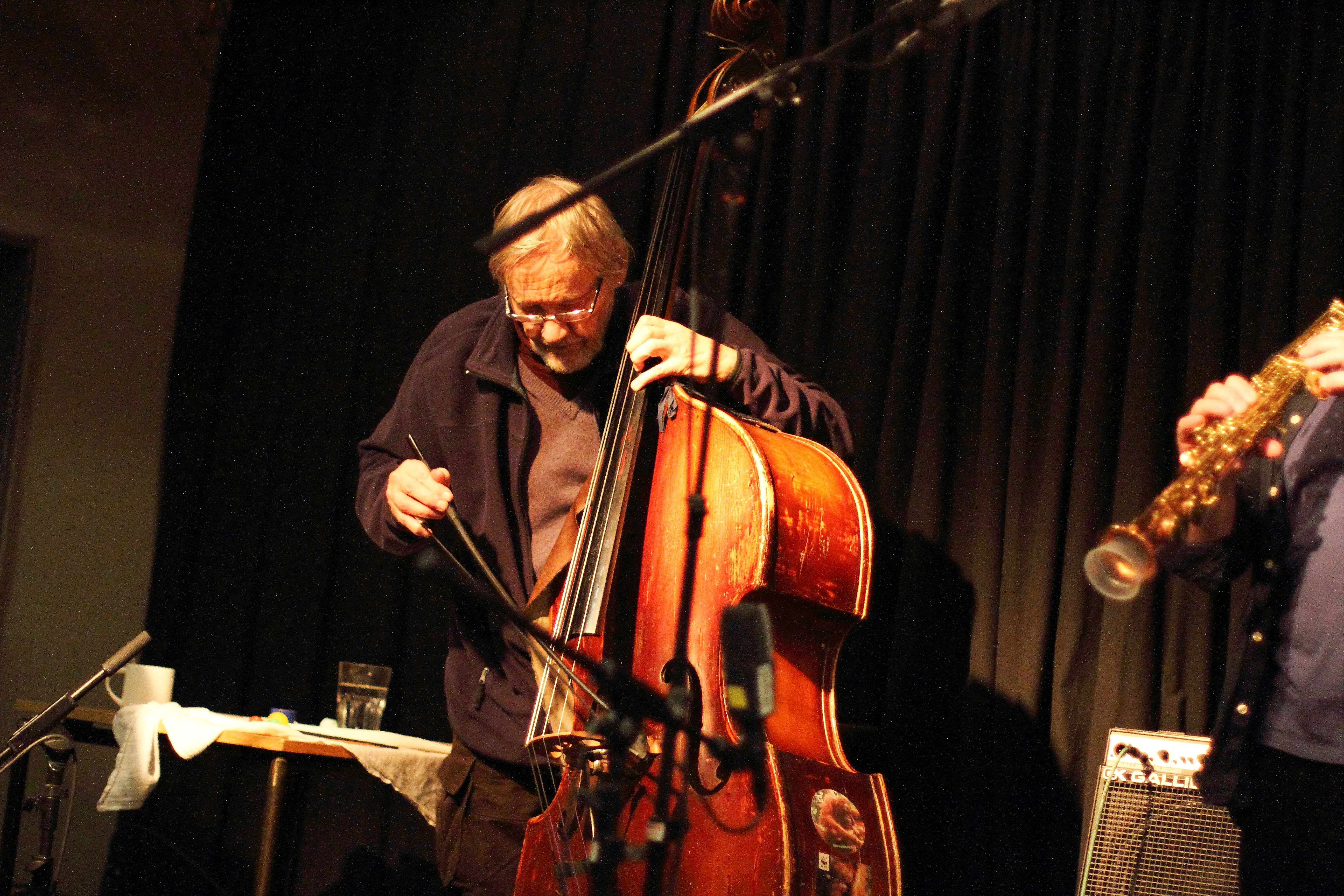 Quintet Moderne at Club W71, Weikersheim. Quintet Moderne are Teppo Hauta-Aho (db), Paul Lovens (dr), Harry Sjöström (sax), Sebi Tramontana (tb) und Phil Wachsmann (violin).